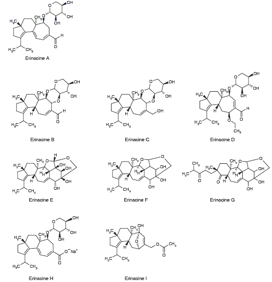 Erinacine A-I